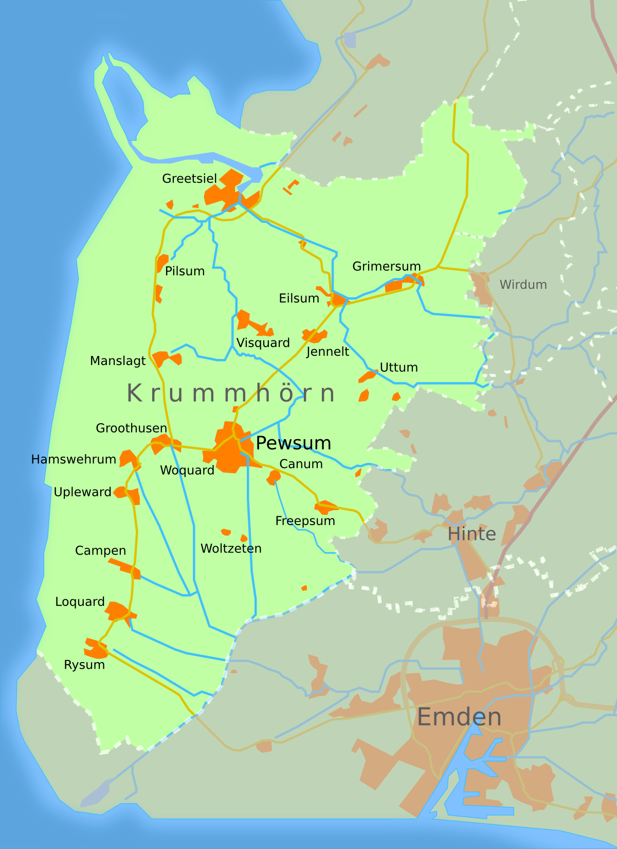 Map of the municipality "Krummhörn" in the district of Aurich, in Lower Saxony, Germany.